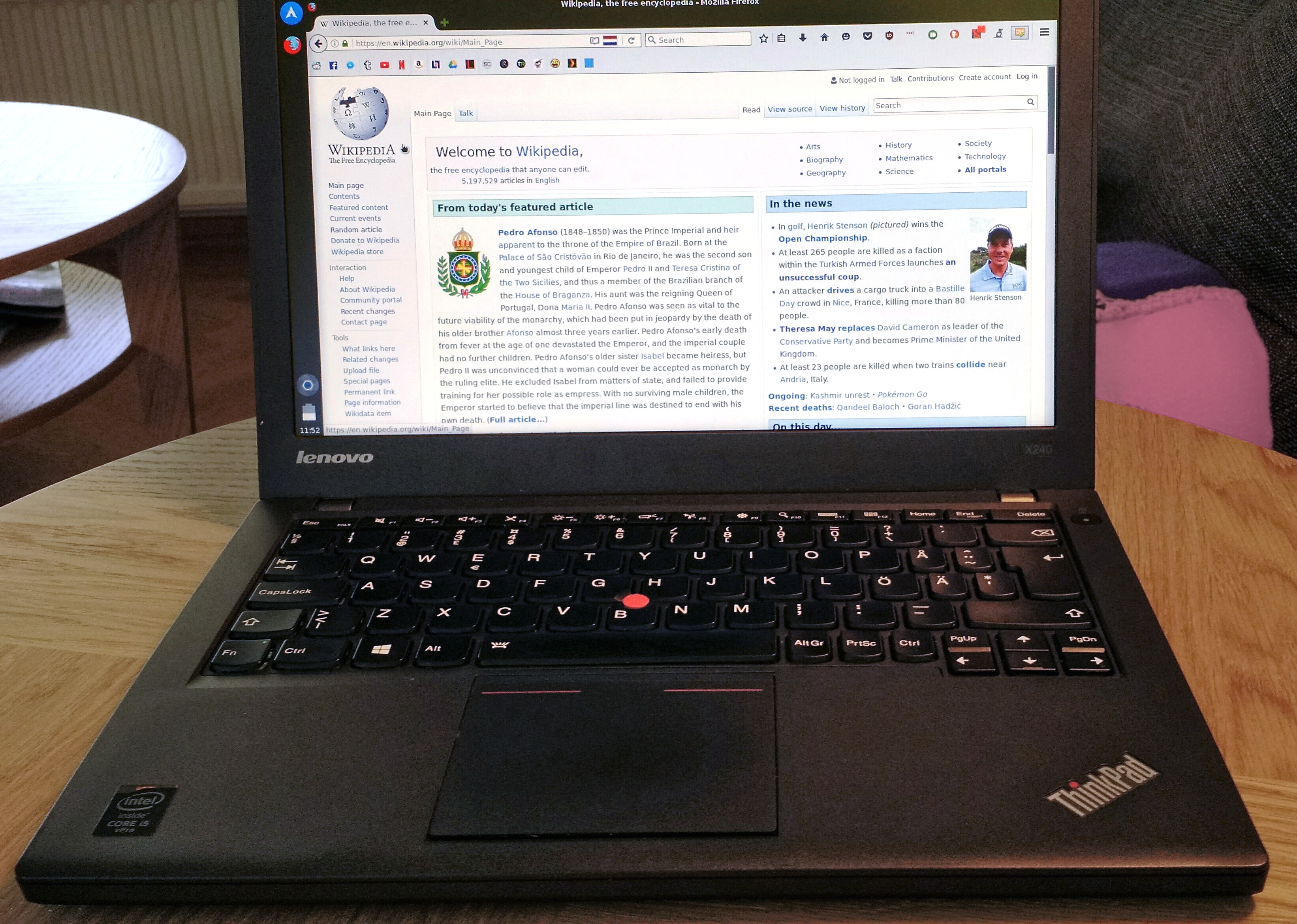 Lenovo Thinkpad x240